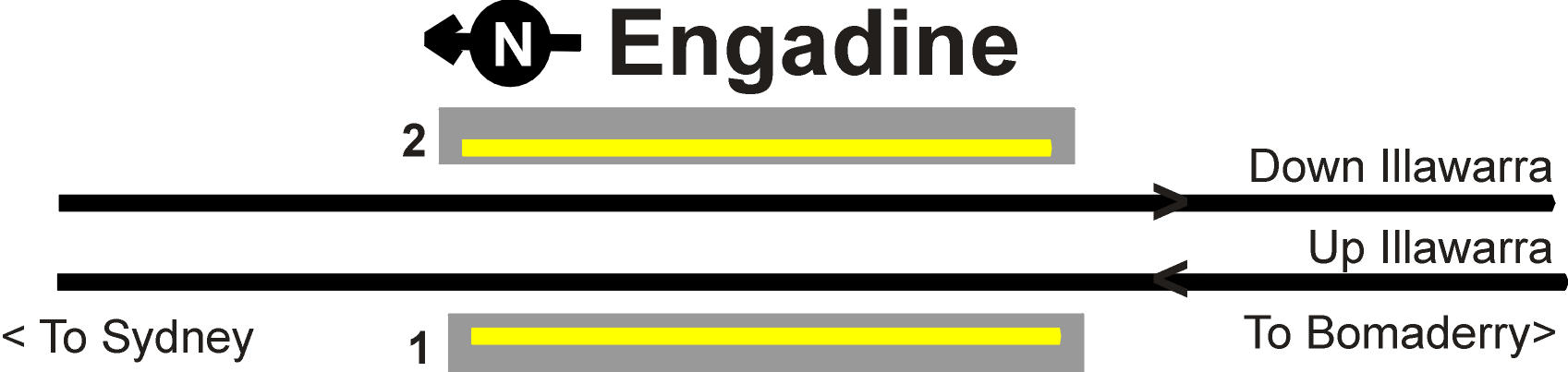 Track layout at Engadine railway station